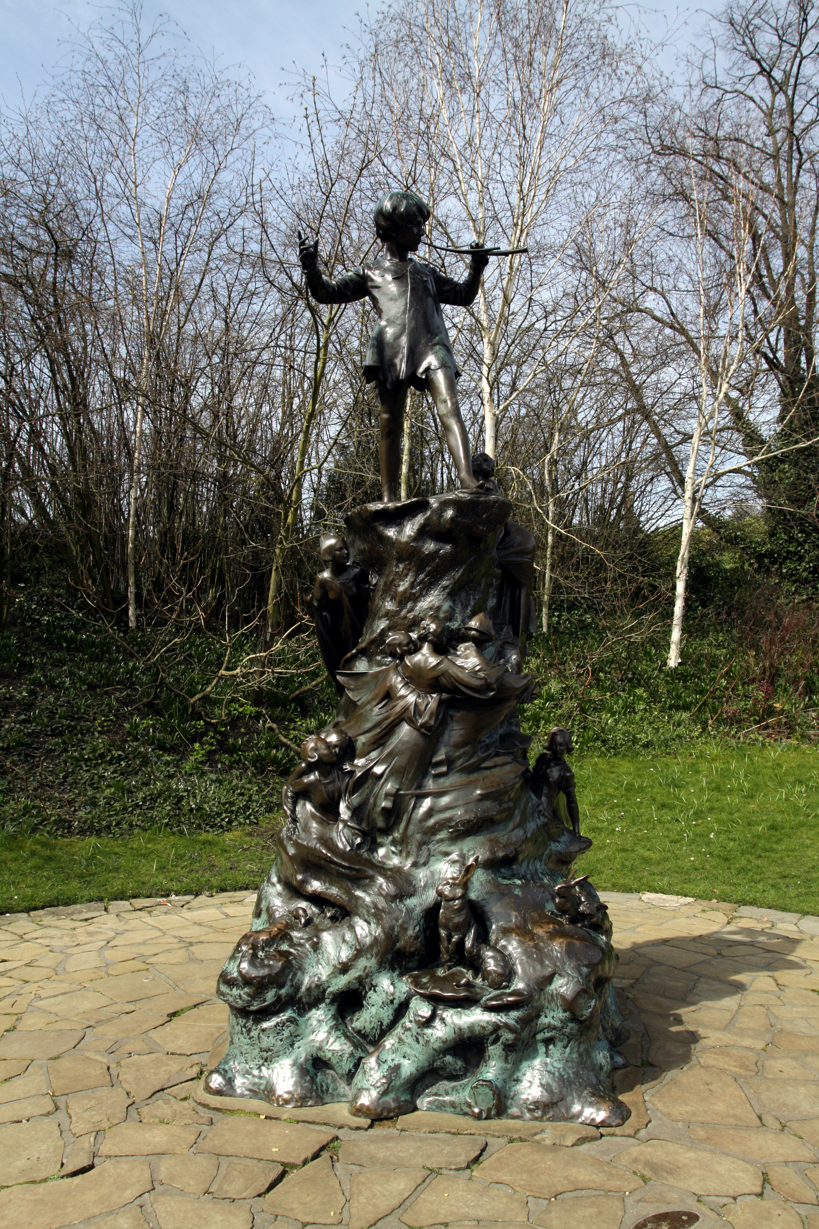 Peter Pan statue in Kensington Gardens, Hyde Park in the City of Westminster in London, Great Britain. The making of this file was supported by Wikimedia UK.